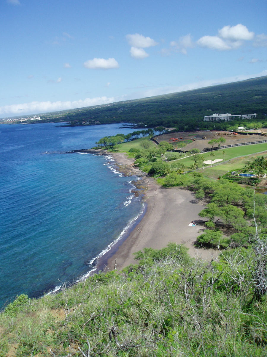 Photo of Oneuli Beach (aka "Black Beach") from top of Puu Olai, Makena State Park, Maui, Hawaii